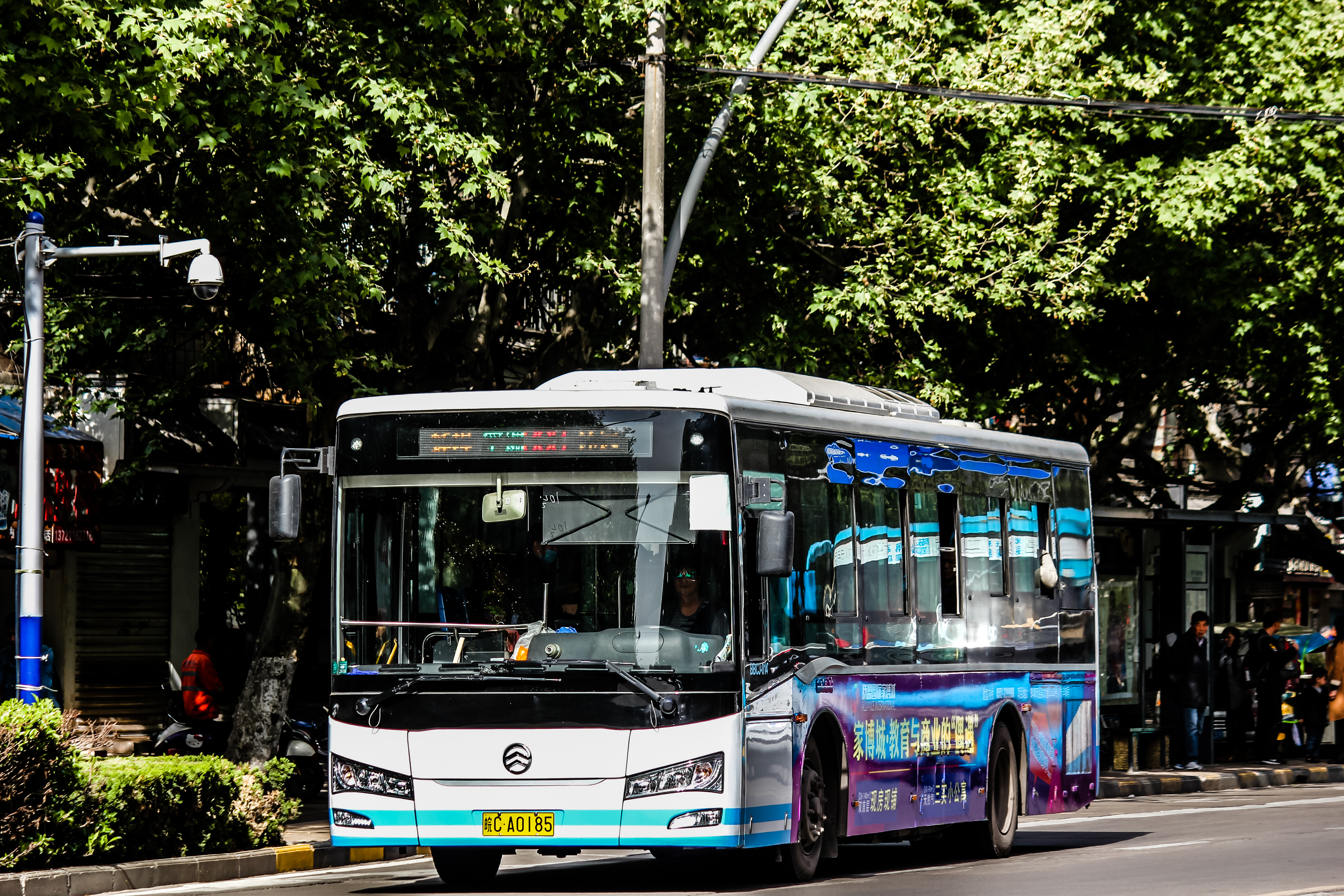 Bengbu Bus No.303 with New XML Hybrid Bus